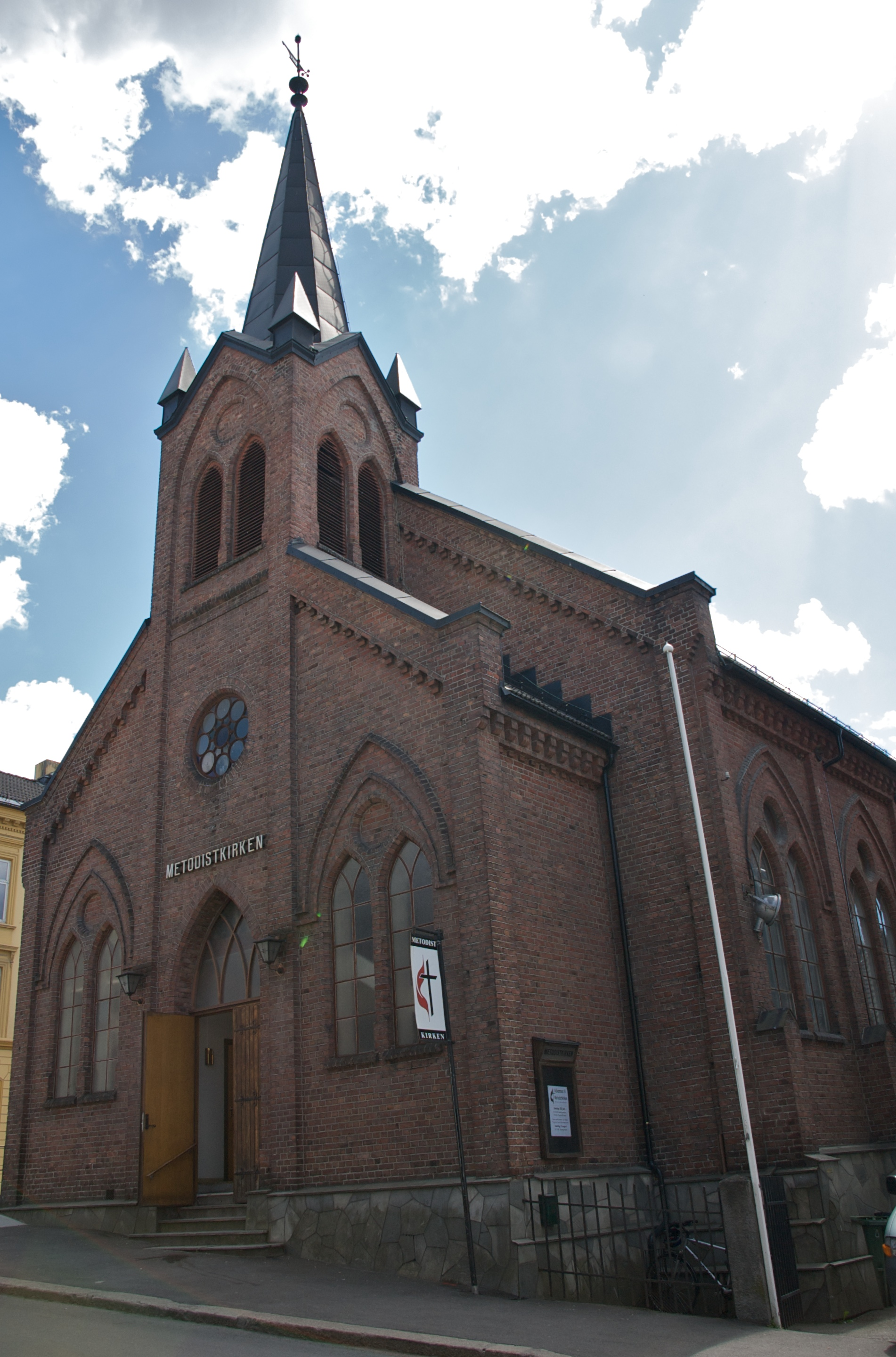 Methodist church in Skien, Norway. This was the first church built after the great city fire in 1886.